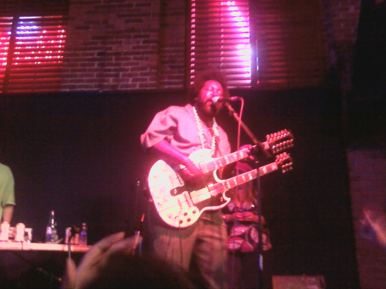 Joseph Foreman in concert at the Bank and Blues